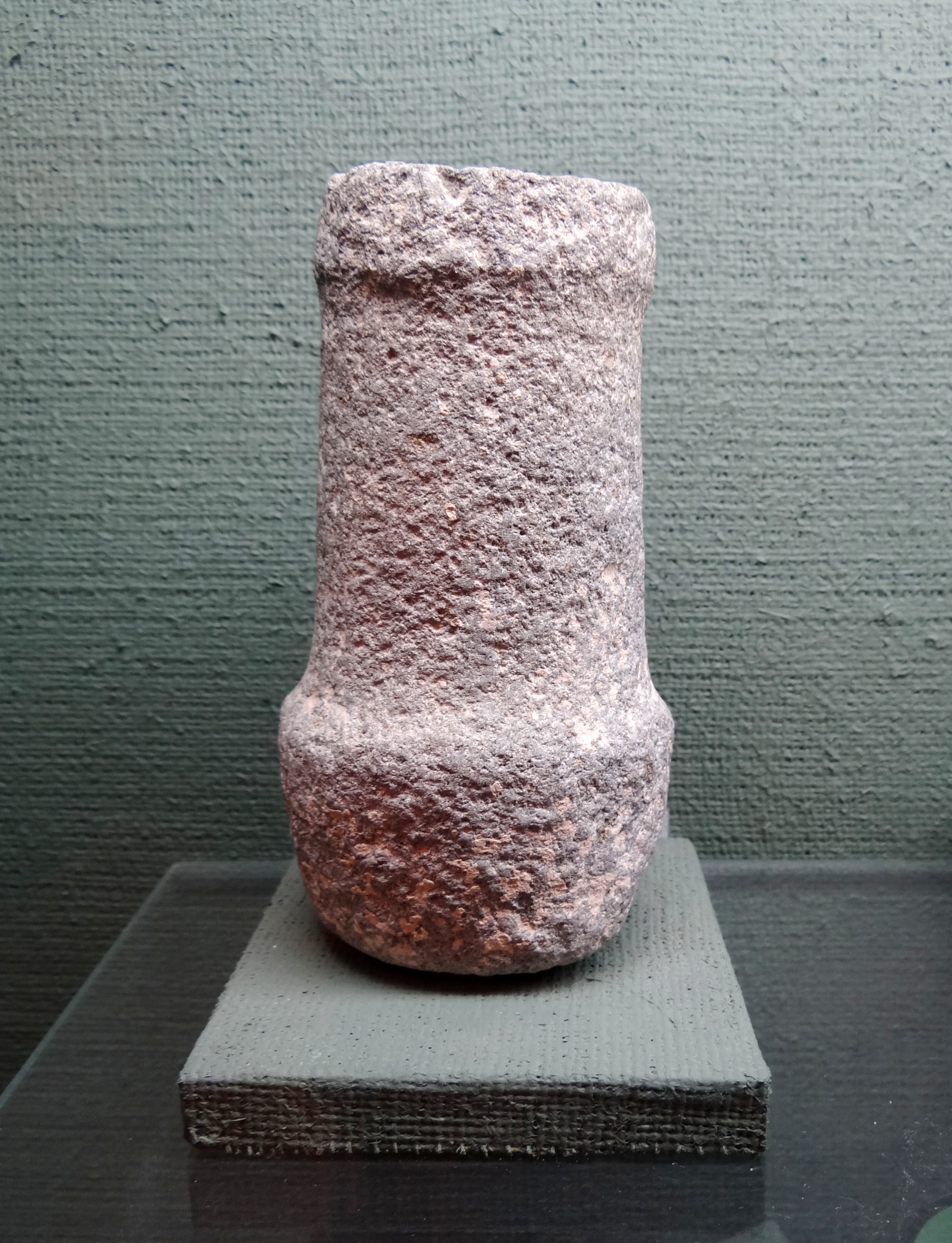 Yarmukian Culture – pounding & grinding stone